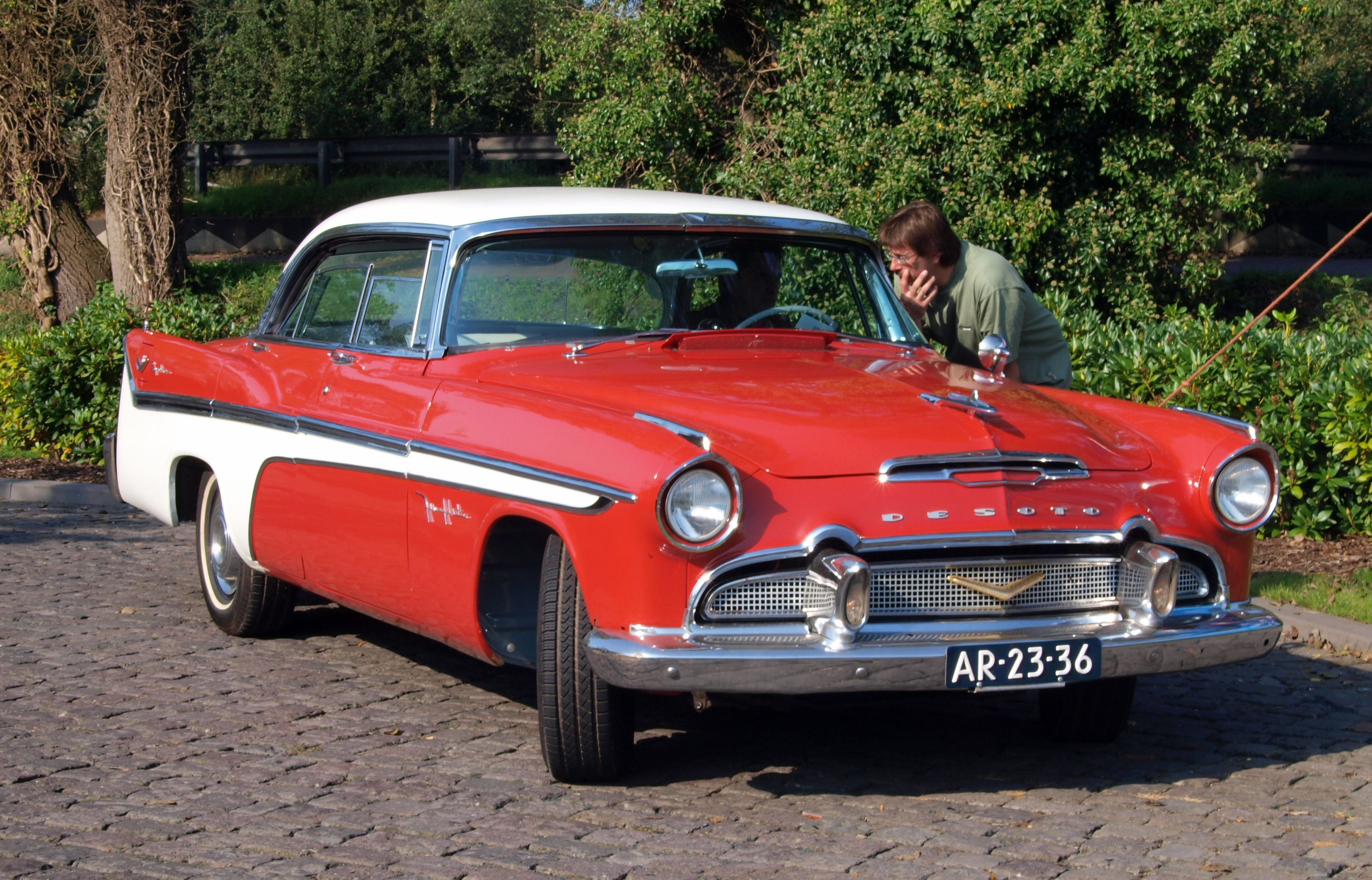 Photographed at the premmesis of the Louwman museum, The Hague, The Netherlands. OLYMPUS DIGITAL CAMERA